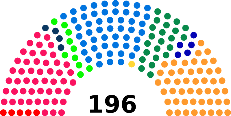 Seats diagramme of Swiss National Council (1951)